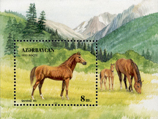 Stamp of Azerbaijan